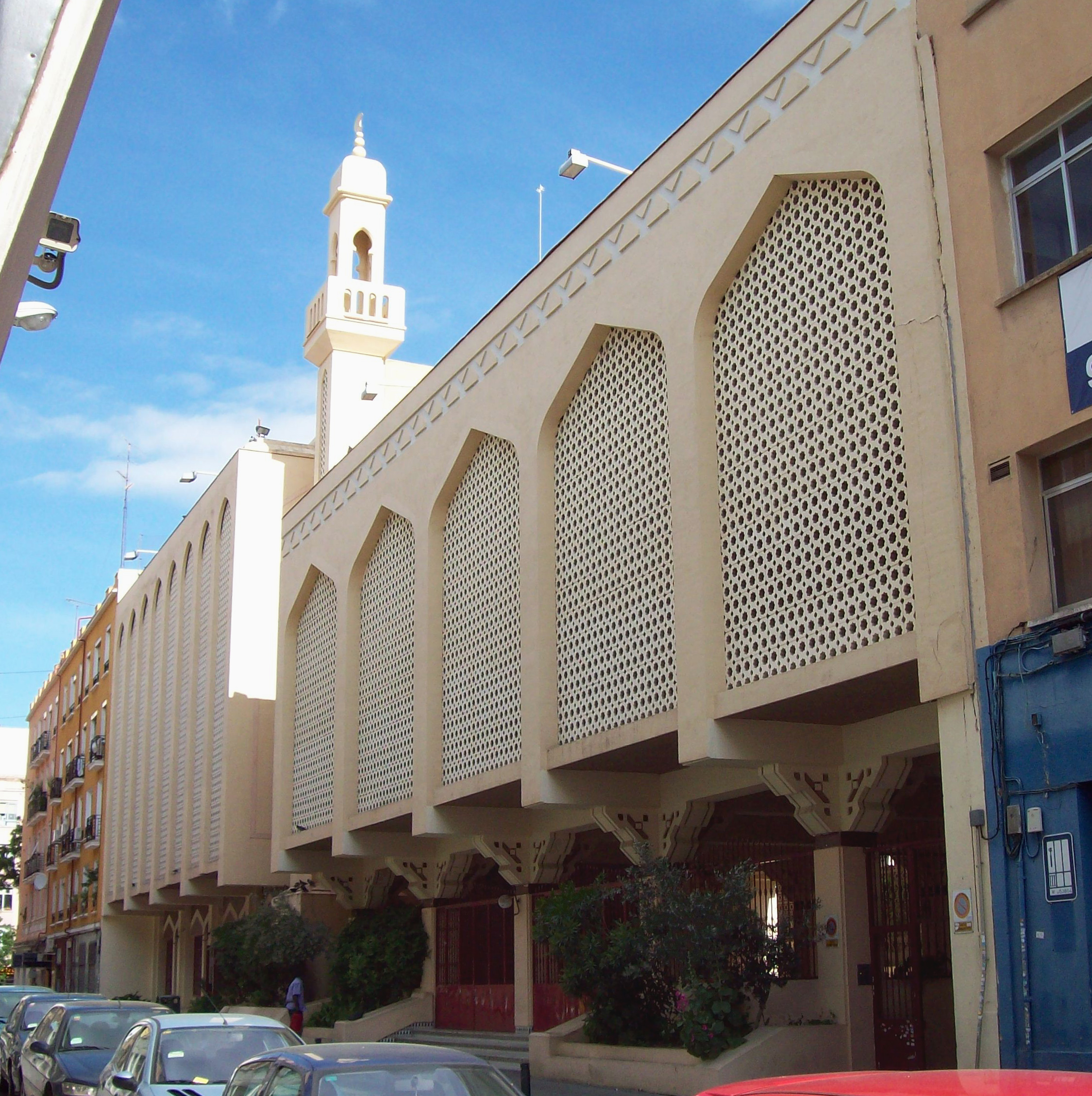 Façade of Madrid Central Mosque (Spain).